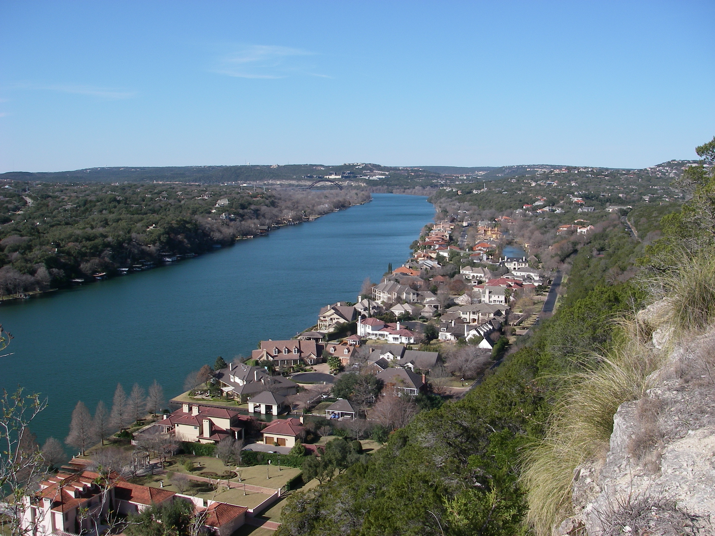 View from atop Mount Bonnell looking northwest toward Pennybacker Bridge.